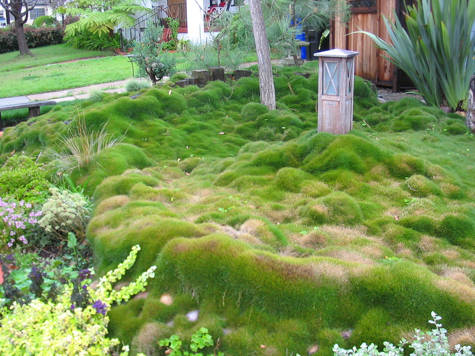 Zoysia grass. San Diegans love this grass. So do I.